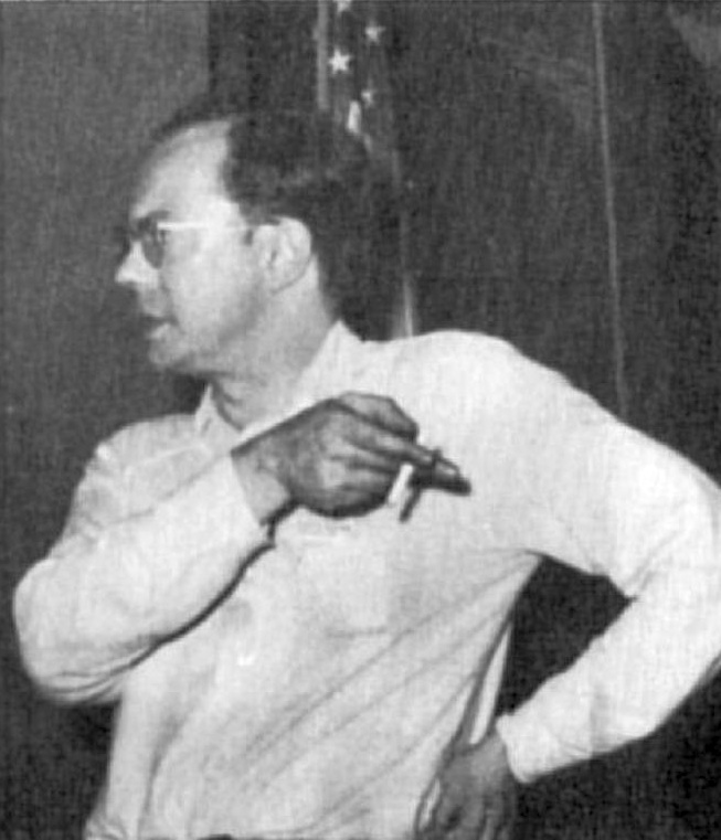 Anthony Boucher at the 1952 World Science Fiction Convention